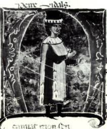 Peire Vidal (note his name at top) in MS 854, folio 39r in the Bibliothèque Nationale de France.